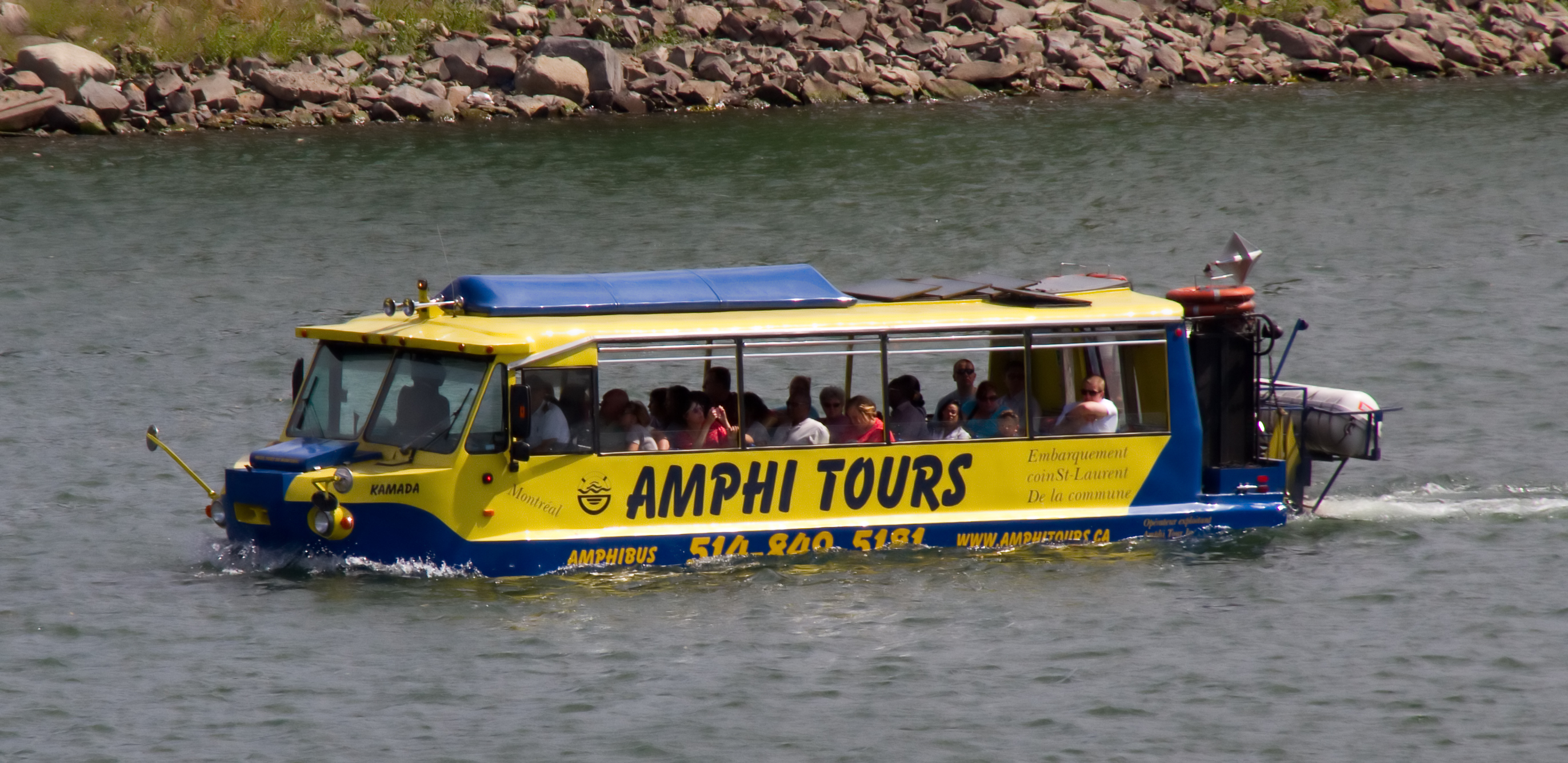 Amphi